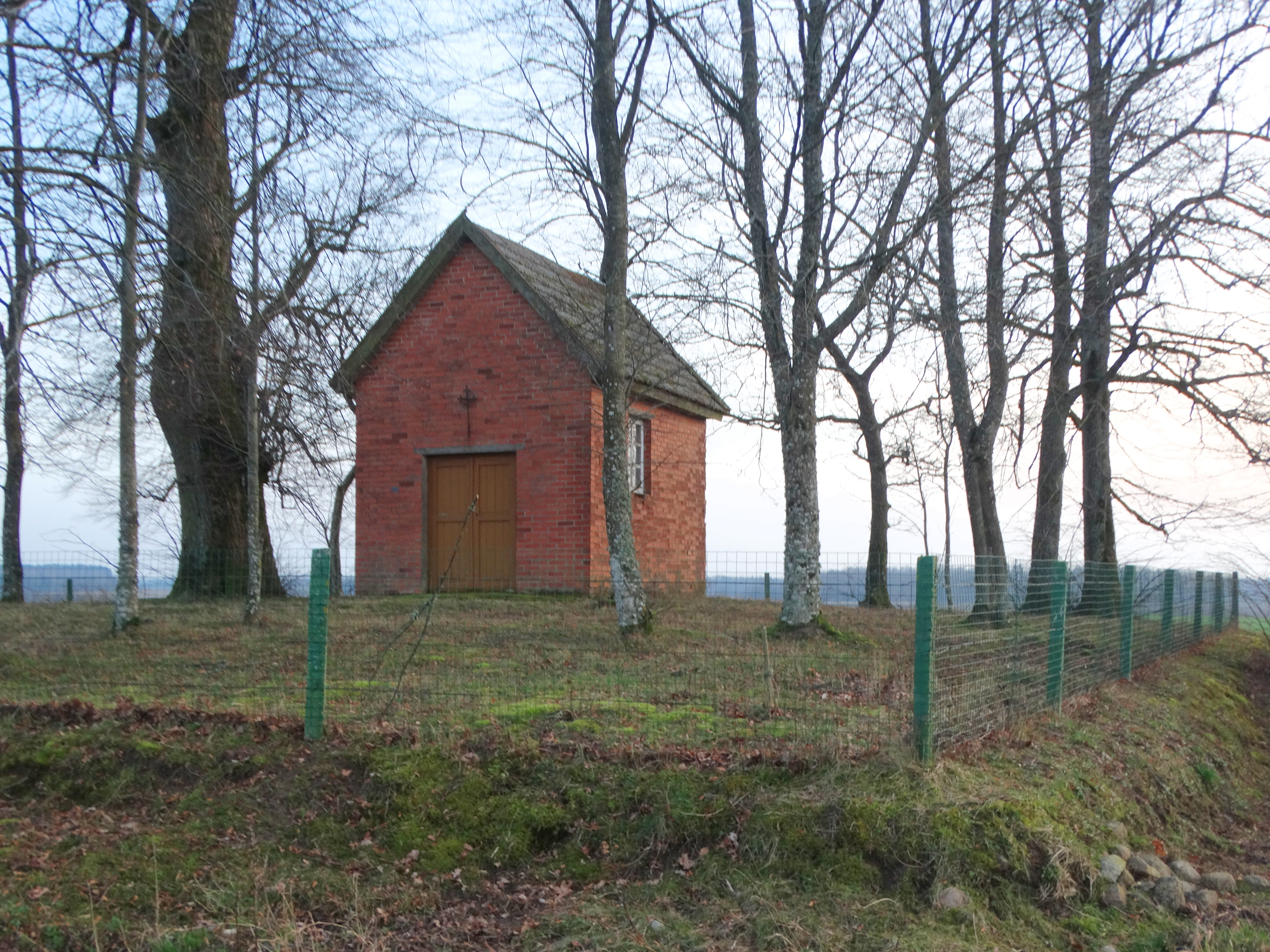 Chapel in Šlaveitai, Kretinga District, Lithuania